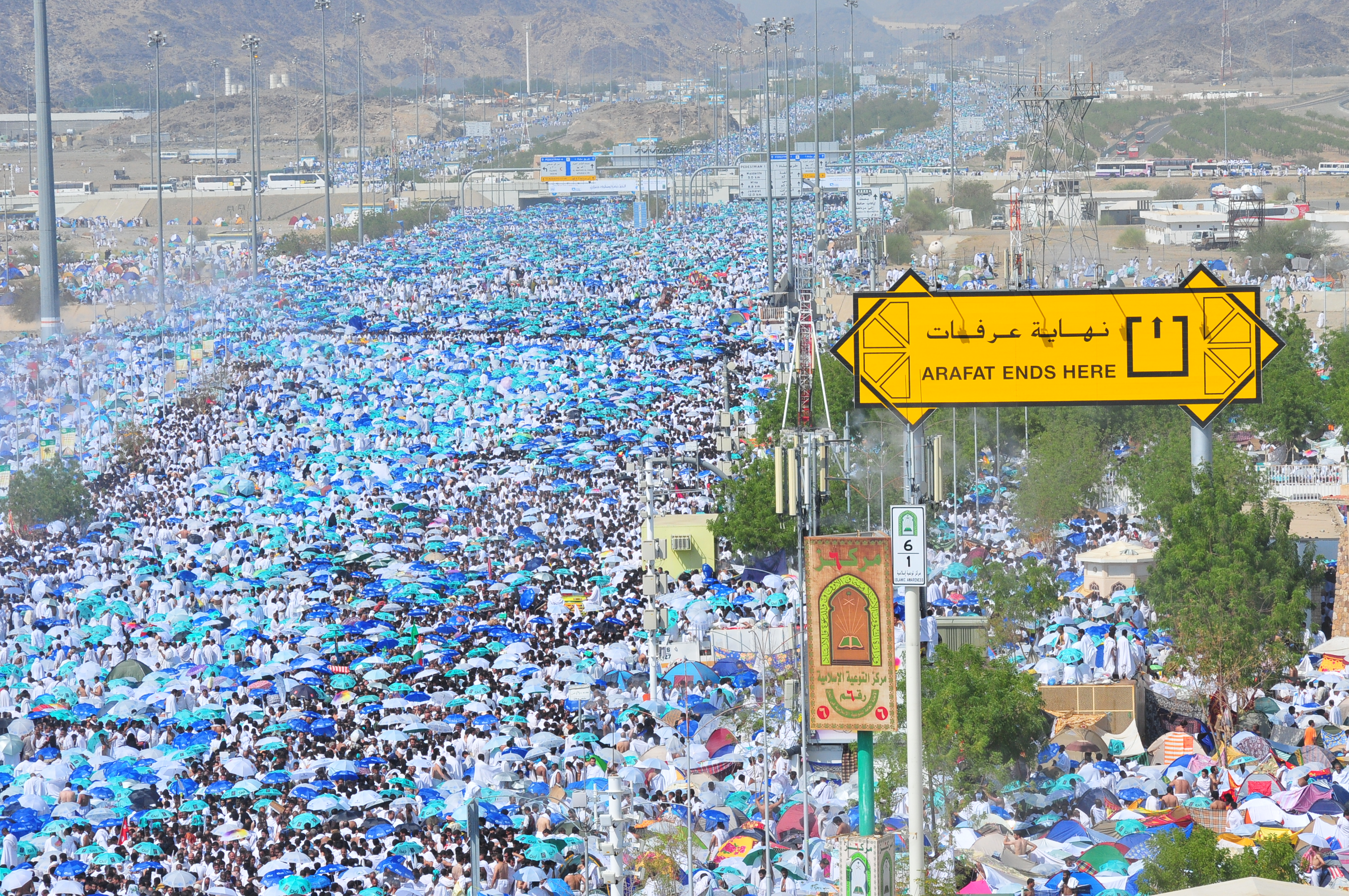 Pilgrims must spend the time within a defined area on the plain of Arafat.